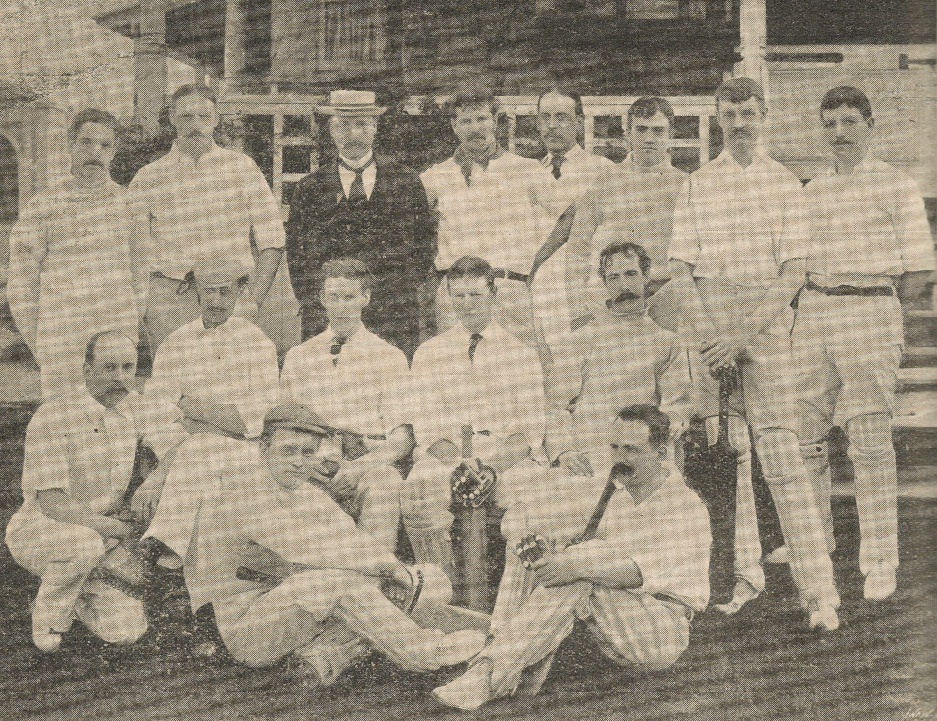 The Philadelphian Cricket team of 1897. This photo was taken on their tour of England that summer.